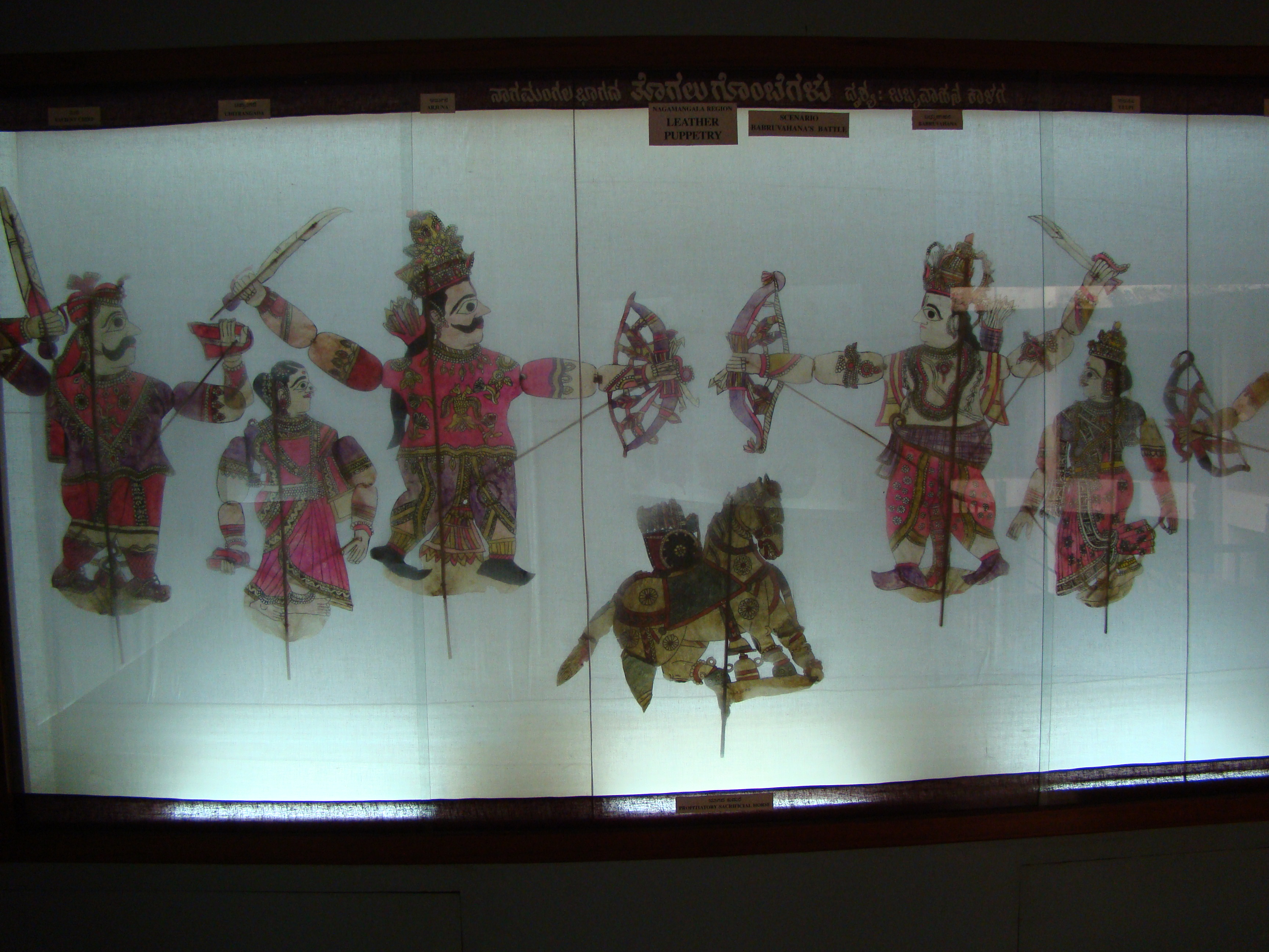 Puppets made of animal skin for shadow play on display in Janapada Loka (Folk art museum